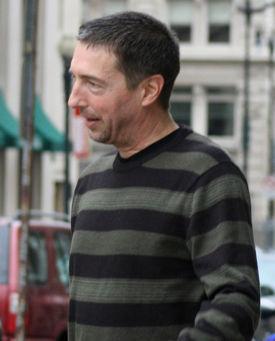 Ronald Prescott Reagan Jr., son of President Ronald Wilson Reagan